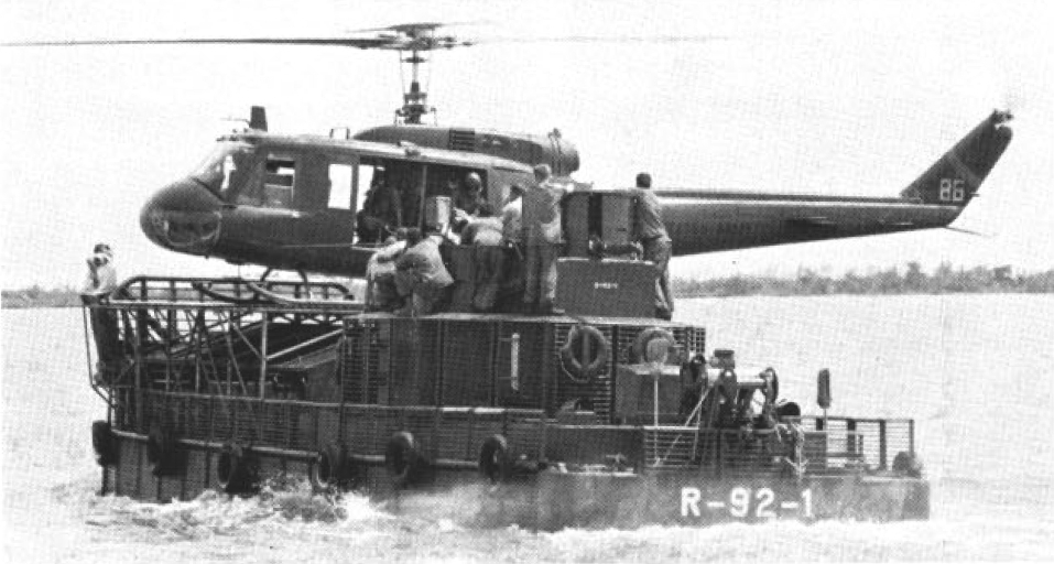 A U.S. Army Bell UH-1D/H Huey lands aboard an ATC(H) of River Assault Division 92, in 1967. The Armoured Troop Carriers were converted LCM-6 landing craft. RAD 92 was based on USS Whitfield County (LST-1169) in the Mekong Delta, Vietnam.